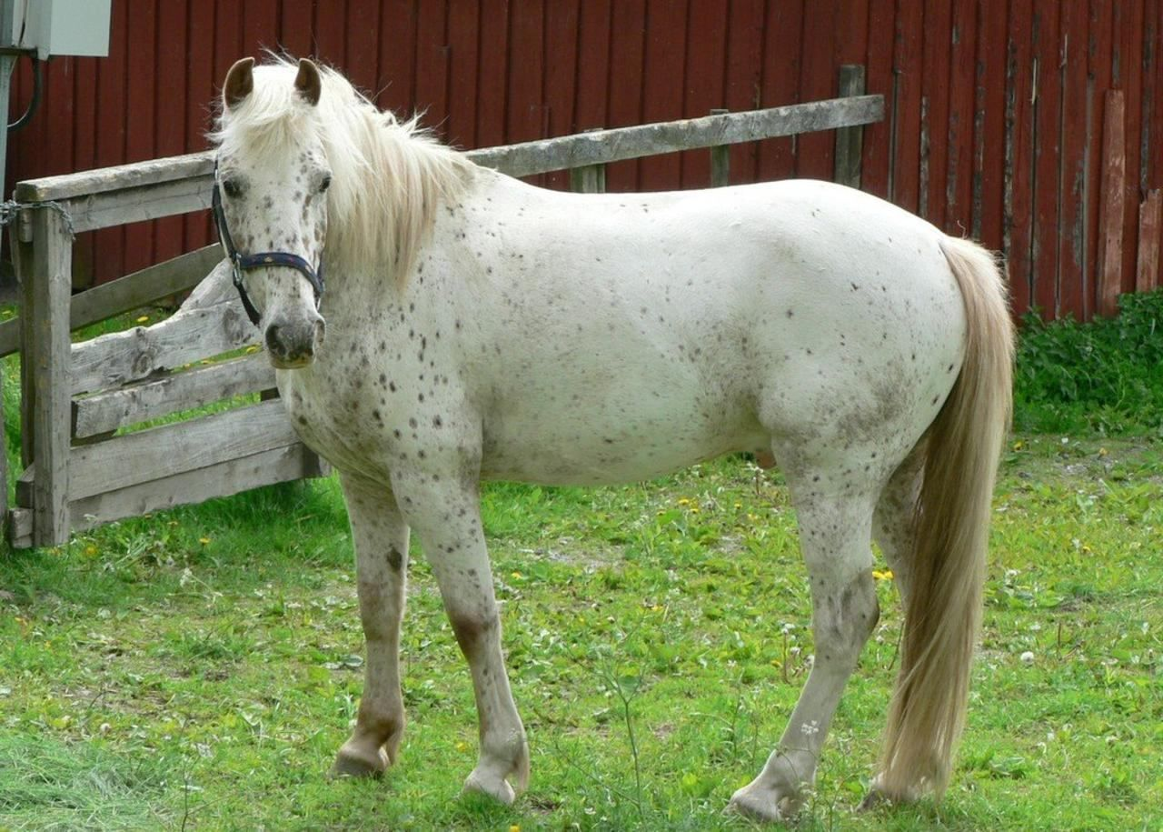 White horse